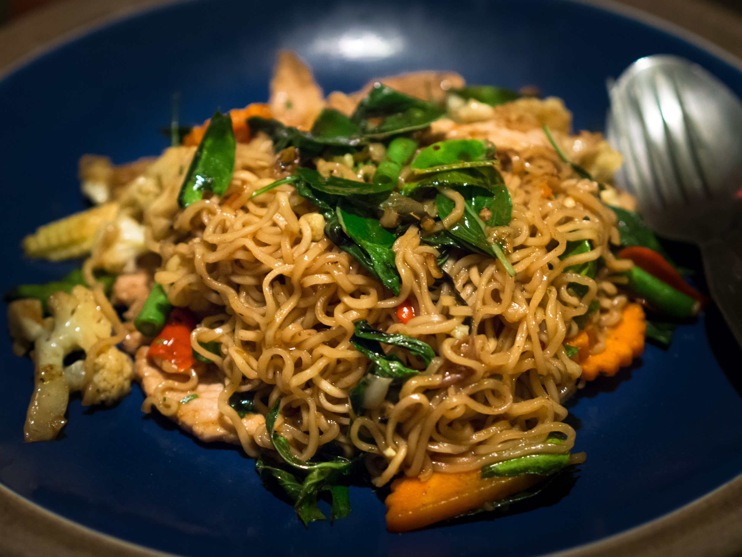 Phat mama (Thai script: ผัดมาม่า) is stir-fried instant noodles ("Mama" is the most popular brand of instant noodles in Thailand). This particular version is mama phat khi mao: instant noodles stir-fried "drunken noodle" style.